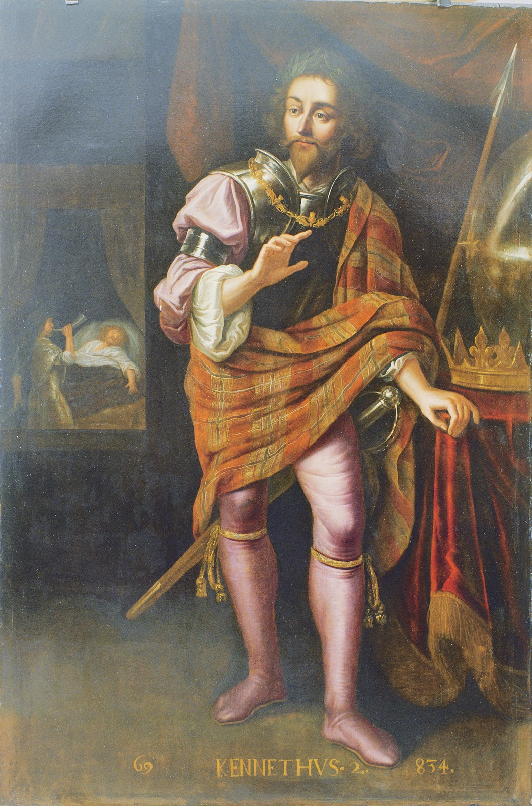 Portrait of Kenneth MacAlpin, King of Scotland (843-63)